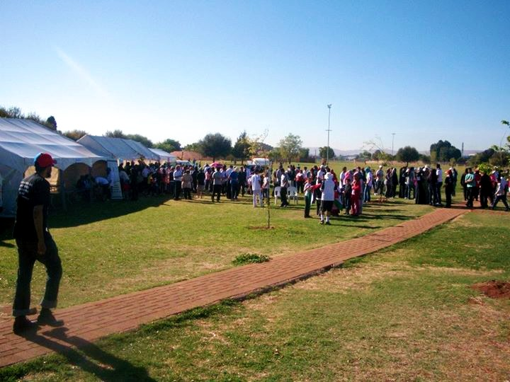 One of many annual community events occuring at Lenasia's Rose Park in September 2012. This is a popular venue amongst Lenasia residents for public events and for family relaxation on weekends. The park, which consists of aesthetically pleasant rose bushes and a fountain, also has a special stimulation and play area specifically for children with disabilities.